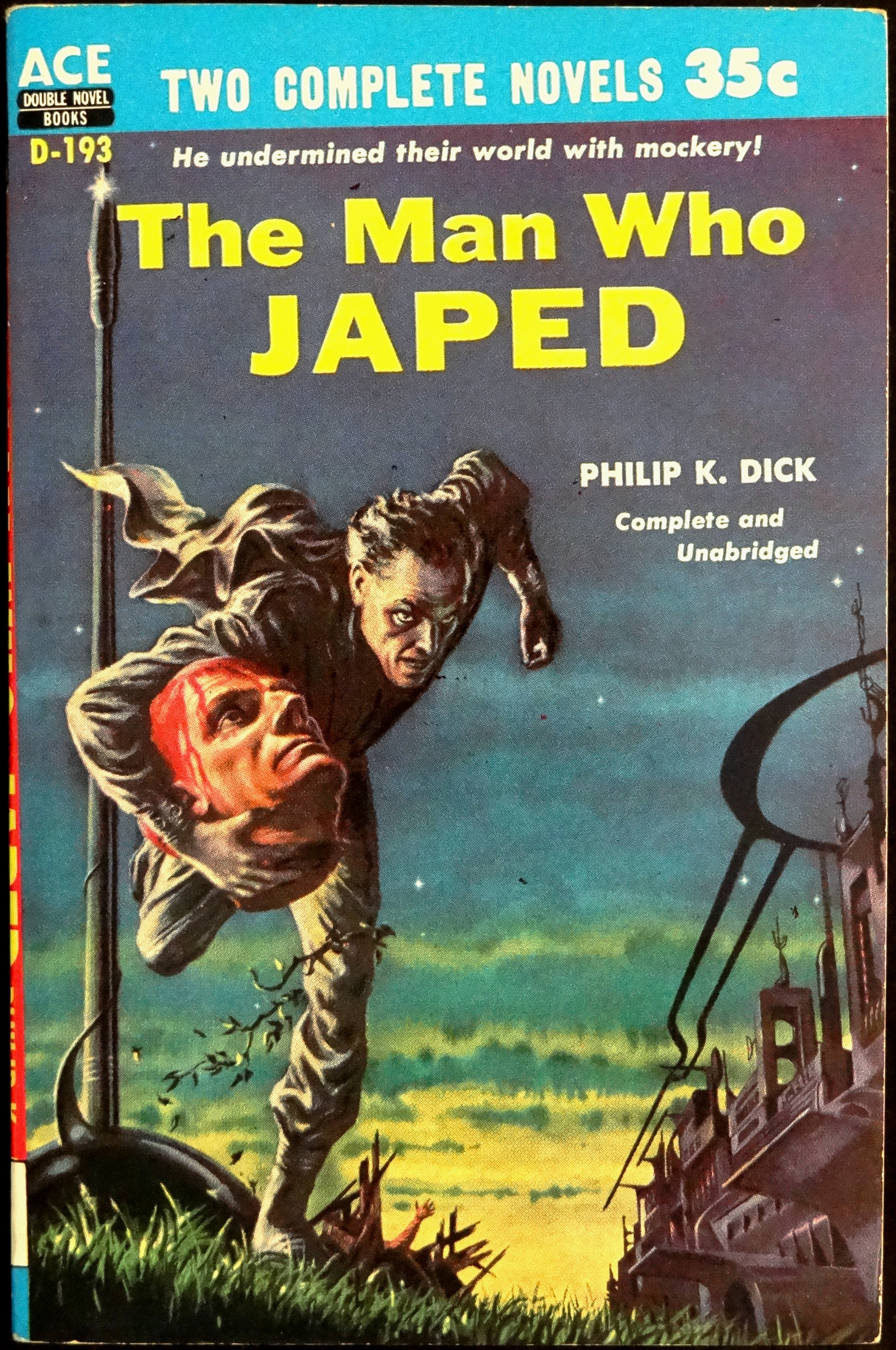 The Man Who Japed